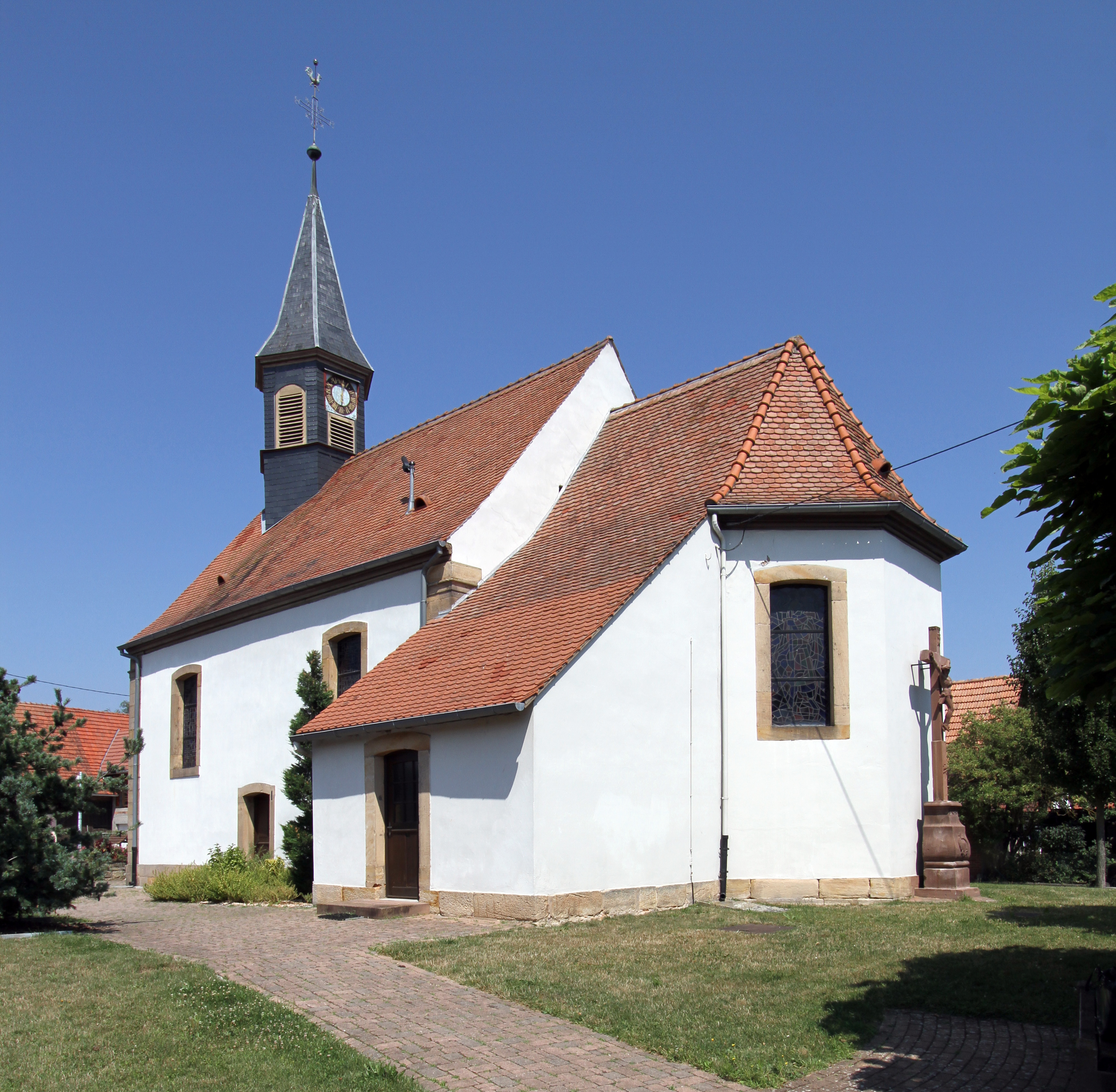 Church in Schwabwiller.